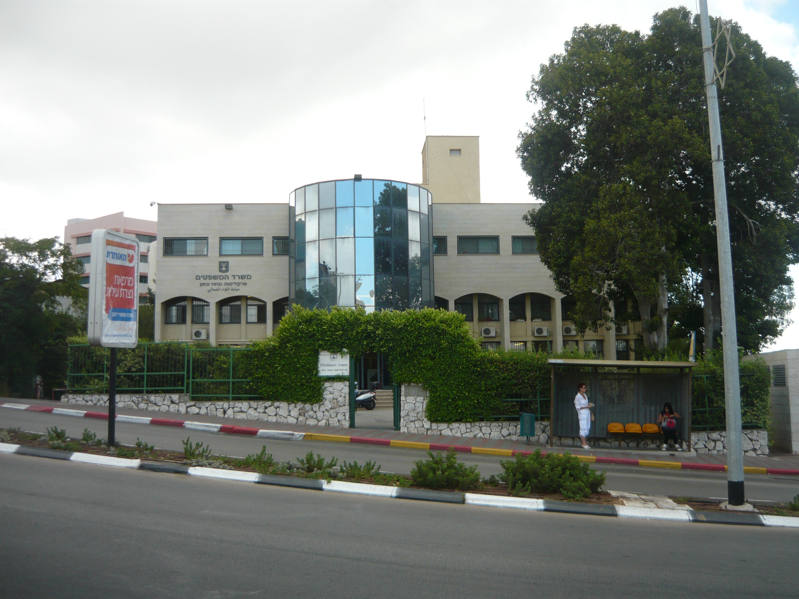 Offices of the Northern district's district attorney in Nazareth-illit משרדי פרקליטות מחוז הצפון בנצרת עילית